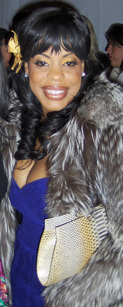 Niecy Nash at the 2007 Golden GlobesNiecy Nash